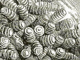 drawing of botfly (Gasterophilus intestinalis) larvae in horse's stomach